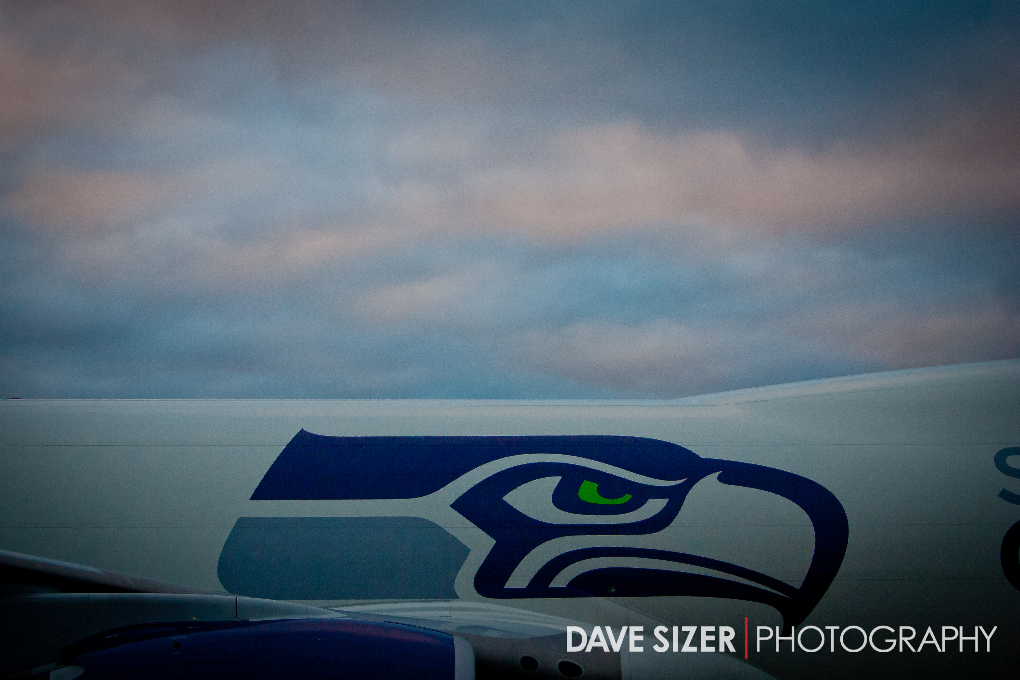 A Boeing 747 Cargo with custom Seattle Seahawks livery to celebrate the 12th man.